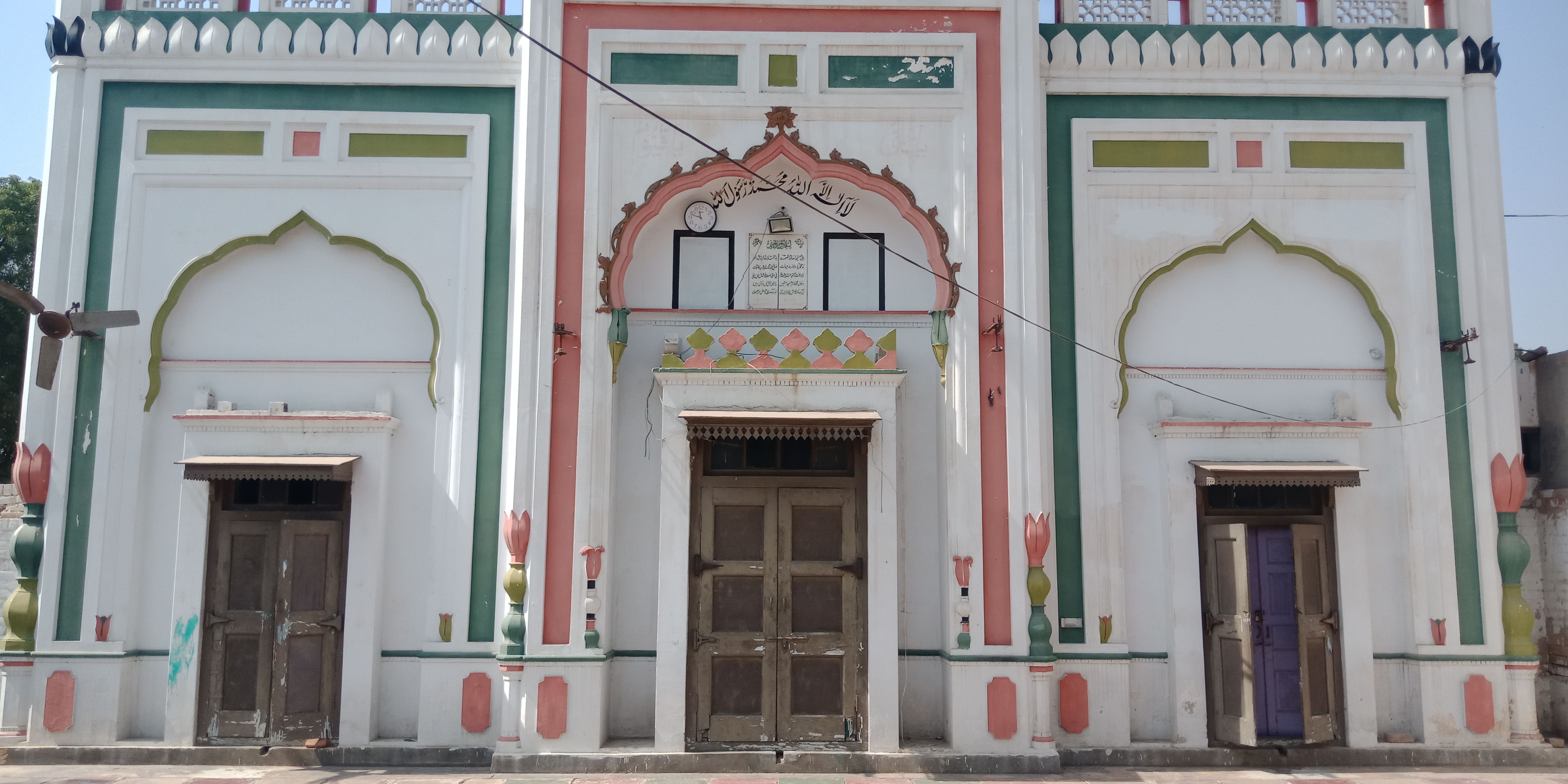 Oldest & Historical Mosque of Bunga Hayat, Built in 1920 by Mian Hayat Khan Manika (Late)